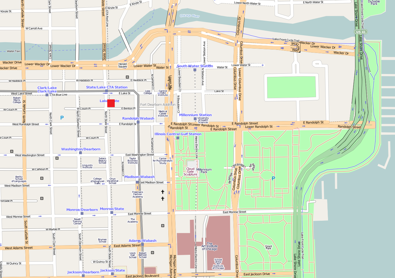 Chicago Theatre in Chicago Loop This map may be incomplete, and may contain errors. Don't rely solely on it for navigation.